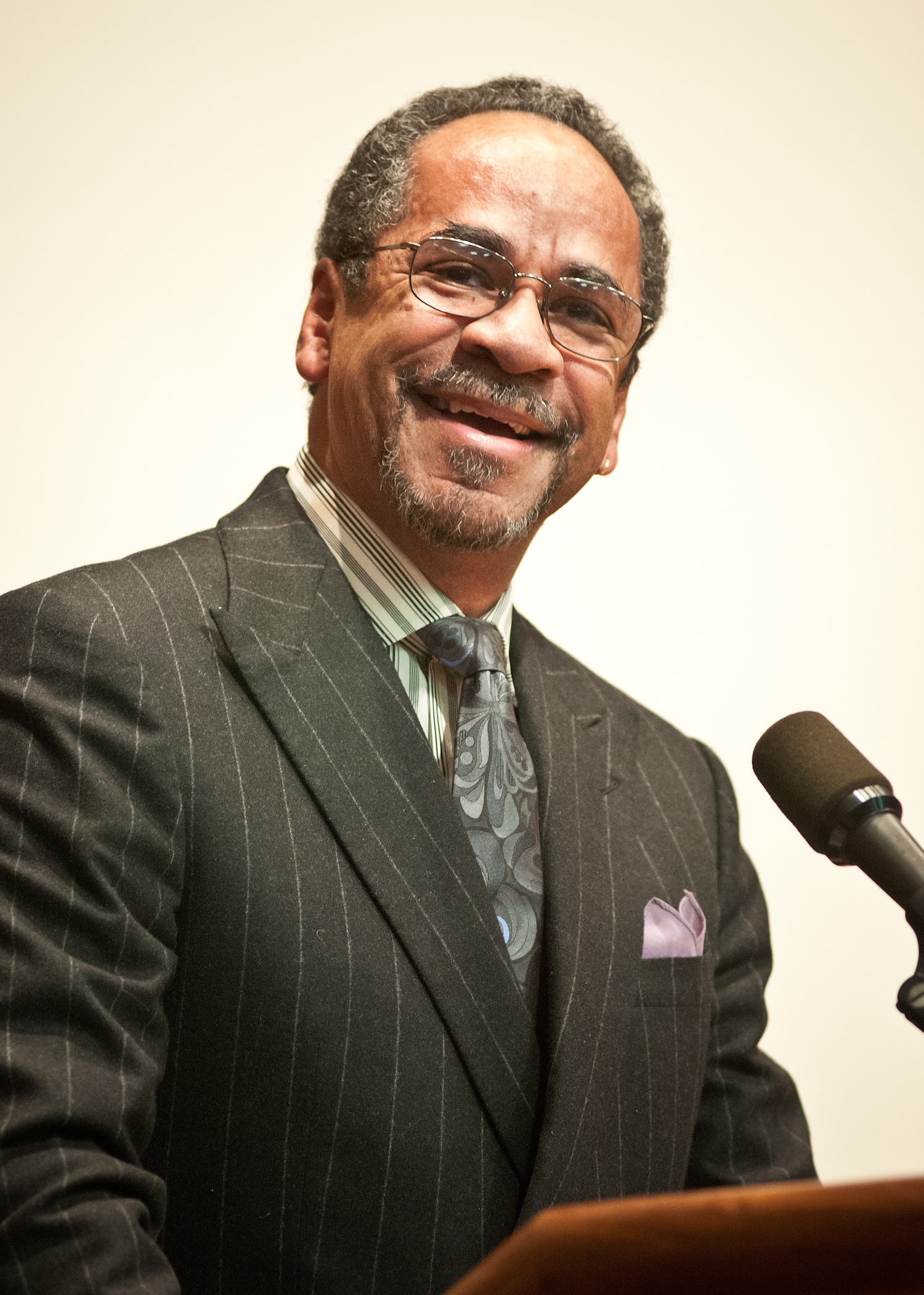 Tim Reid Actor, Comedian, Filmmaker and Social Activist was the guest speaker at the United States Department of Agriculture Black History Month celebration “Black Women in American Culture and History” in Washington, D.C. on Thursday, February 16, 2012. Reid spoke of the importance of women in his family, life and of the contributions of Black women to American history. Reid produced a documentary for USDA Cultural Transformation. USDA Photo by Bob Nichols.